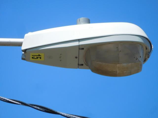 History of street lighting:General Electric M250A2 (1986–present) (50–250 watts)